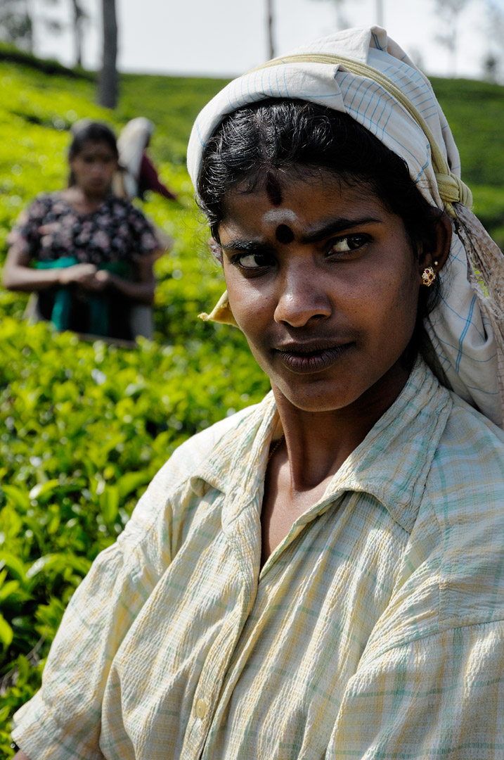 Tamil woman working in a tea plantation in central Sri Lanka.